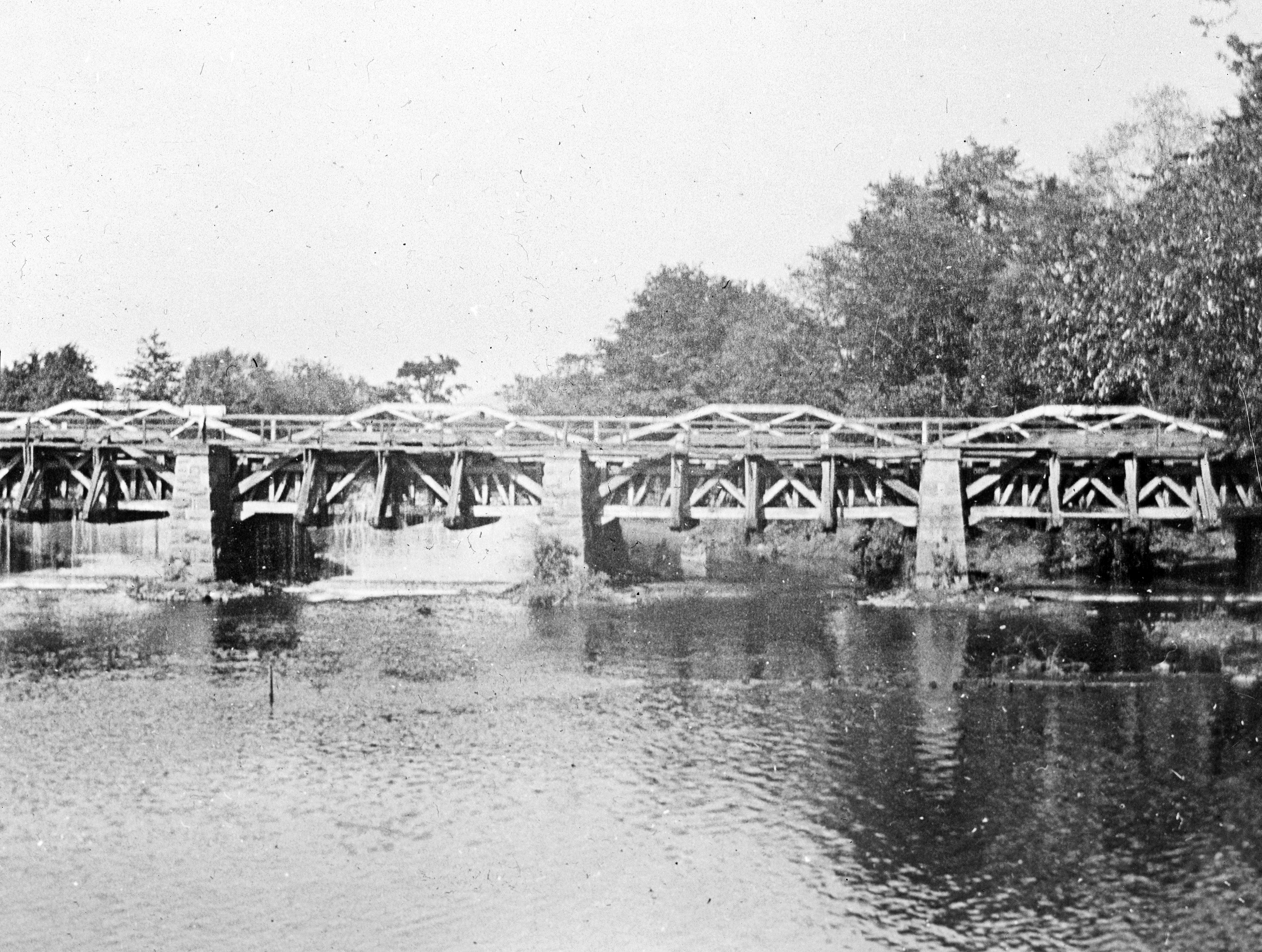 View of the Aqueduct that carried the Morris Canal over the Pompton River.